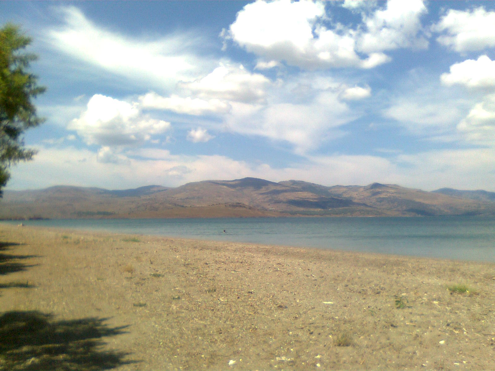 View from the beach in Nifida(Likoudi).